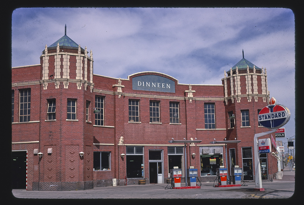 Margolies, John,, photographer. Dinneen Standard station, 16th Street, Cheyenne, Wyoming 1980. 1 photograph : color transparency ; 35 mm (slide format). Notes: Title, date and keywords based on information provided by the photographer. Margolies categories: General gas stations; Gas stations. Please use digital image: original slide is kept in cold storage for preservation. Credit line: John Margolies Roadside America photograph archive (1972-2008), Library of Congress, Prints and Photographs Division. Purchase; John Margolies 2007 (DLC/PP-2007:125). Forms part of: John Margolies Roadside America photograph archive (1972-2008). Subjects: Automobile service stations--1980. United States--Wyoming--Cheyenne. Format: Slides--1980.--Color For more information, see "John Margolies Roadside America Photograph Archive - Rights and Restrictions Information" Repository: Library of Congress, Prints and Photographs Division, Washington, D.C. 20540 USA, Part Of: Margolies, John John Margolies Roadside America photograph archive (DLC) 2010650110 General information about the John Margolies Roadside America photograph archive is available at Higher resolution image is available (Persistent URL): Call Number: LC-MA05- 33